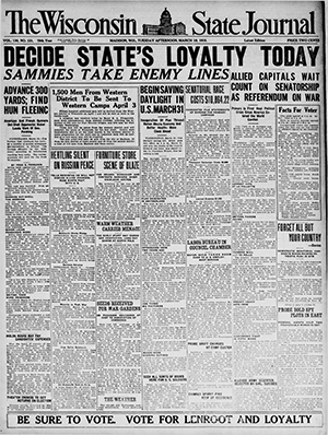 Front page of the Wisconsin State Journal, March 19, 1918